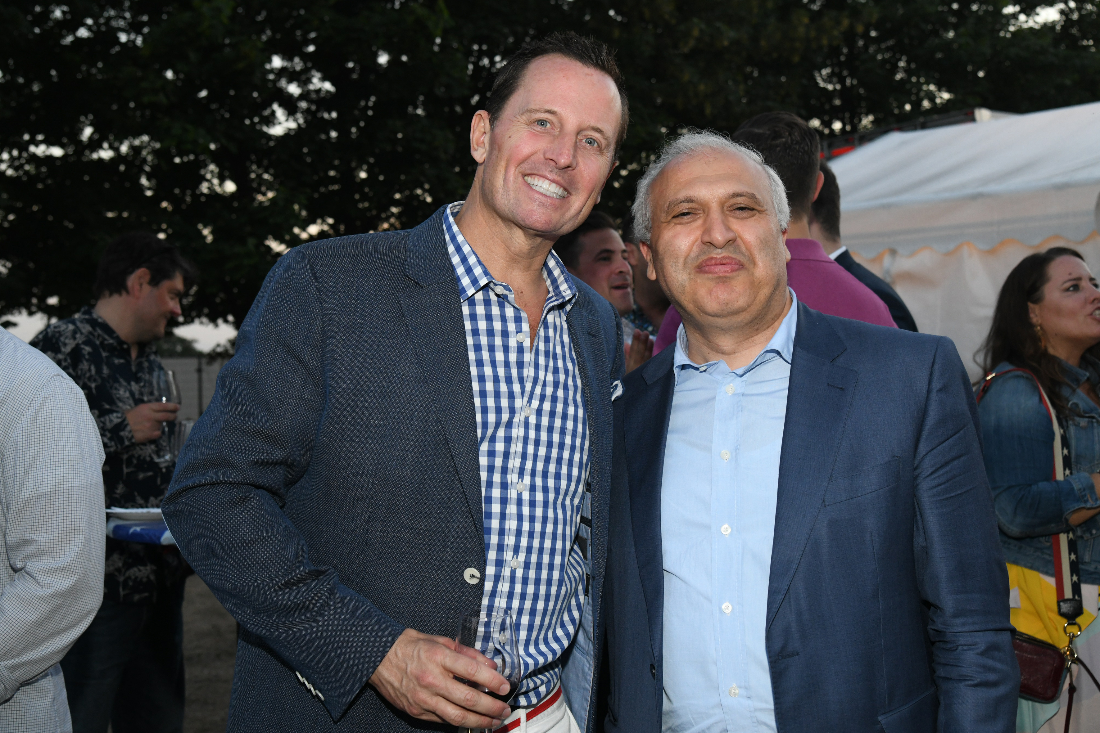 L to R: Richard Grenell and Ashot Smbatyan, Sommerfest der US Botschaft Berlin, 4th of July 2018